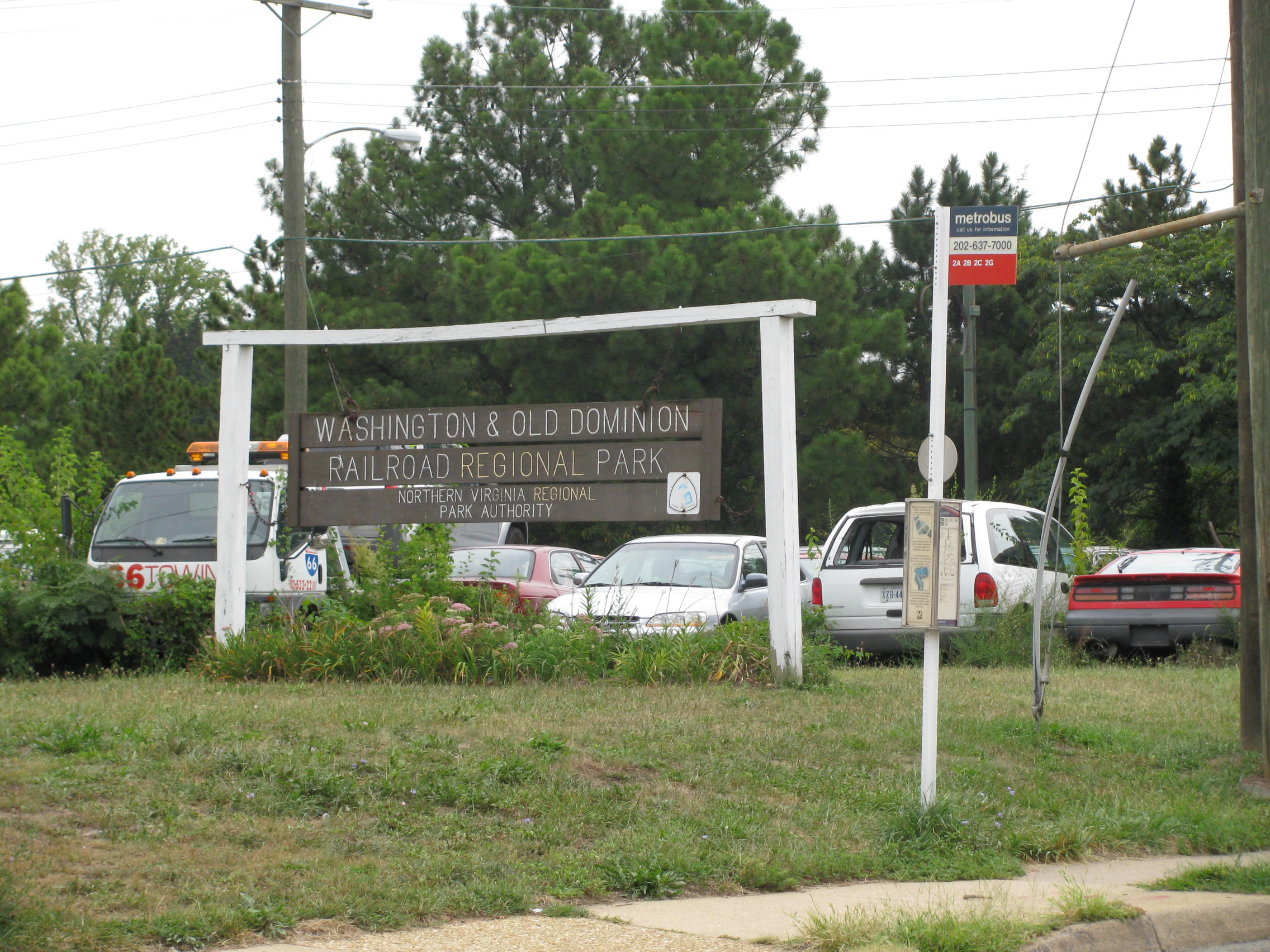 washington and old dominion trail falls church virginia